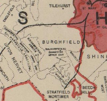 screen shot of old map